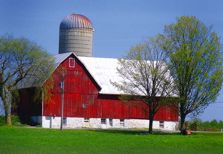 County of Peterborough, the Kawarthas, near Lakefield, Ontario [foto by P.B.Toman]